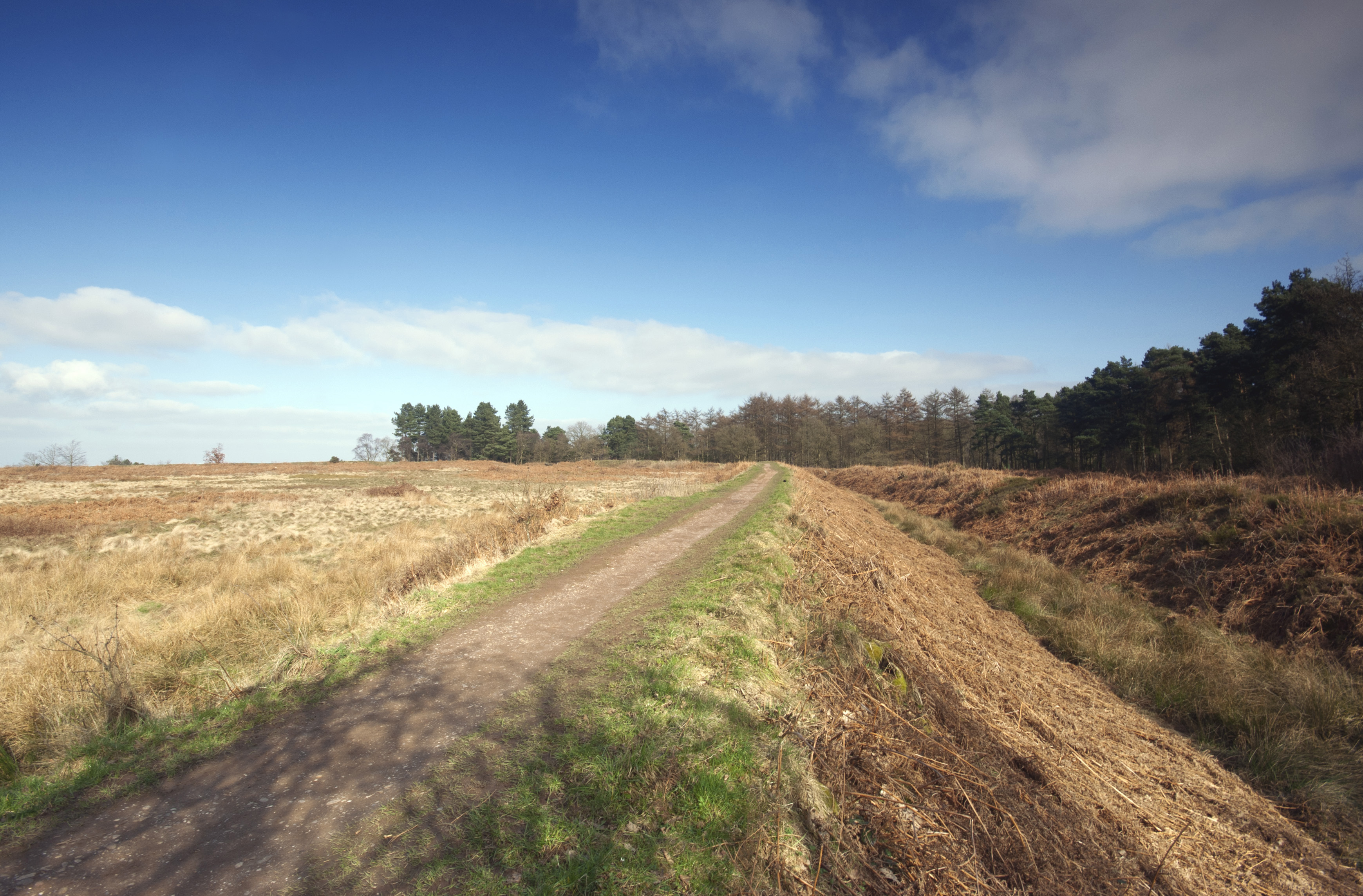 Castle Ring, Cannock Chase, Staffordshire, UK. View from the south east of the Iron Age Hill Fort showing ramparts either side.